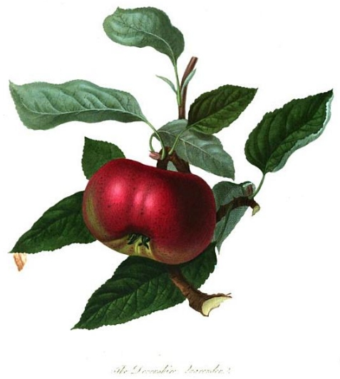 "The Devonshire Quarenden" from William Hooker, Pomona Londinensis, 1818